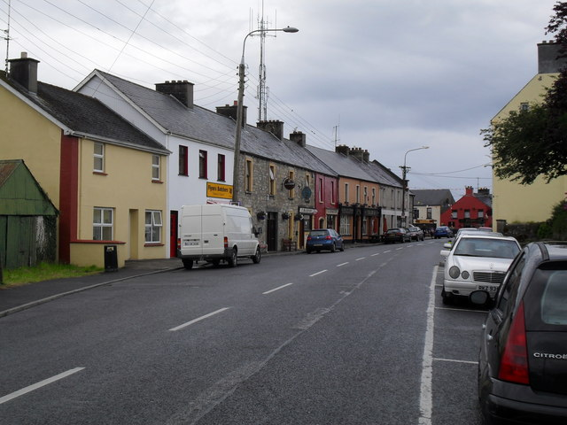 Main Street, Blacklion, near to An Blaic, Holywell and Belcoo, Cavan, Ireland. The Main Street in Blacklion.